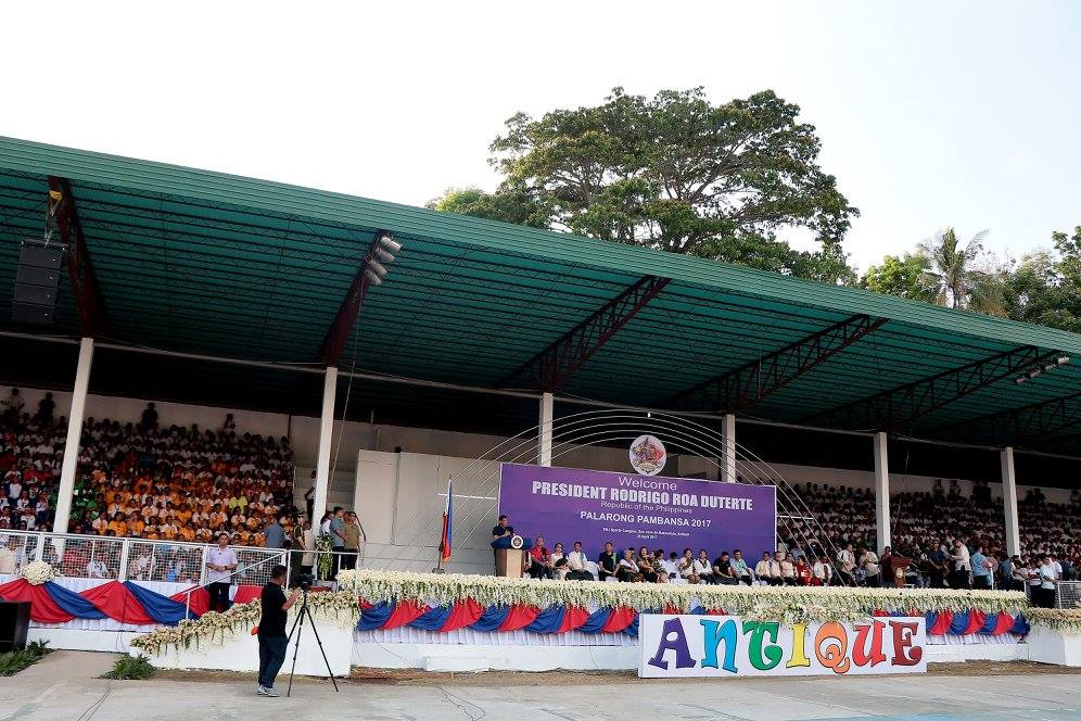 The 2017 Palarong Pambansa was officially opened by Philippine President Rodrigo Duterte at Binirayan Sports Complex located at Municipality of San Jose de Buenavista in Antique.